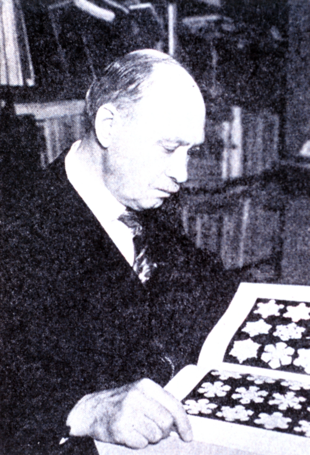 Dr. William Jackson Humphreys, meteorological physicist of the Weather Bureau.